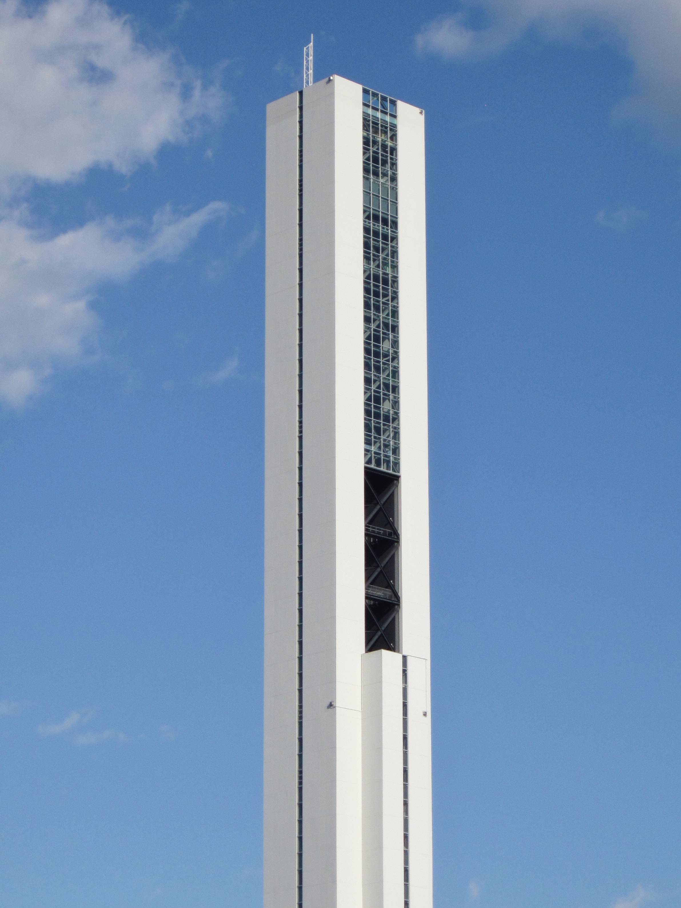 G1TOWER.